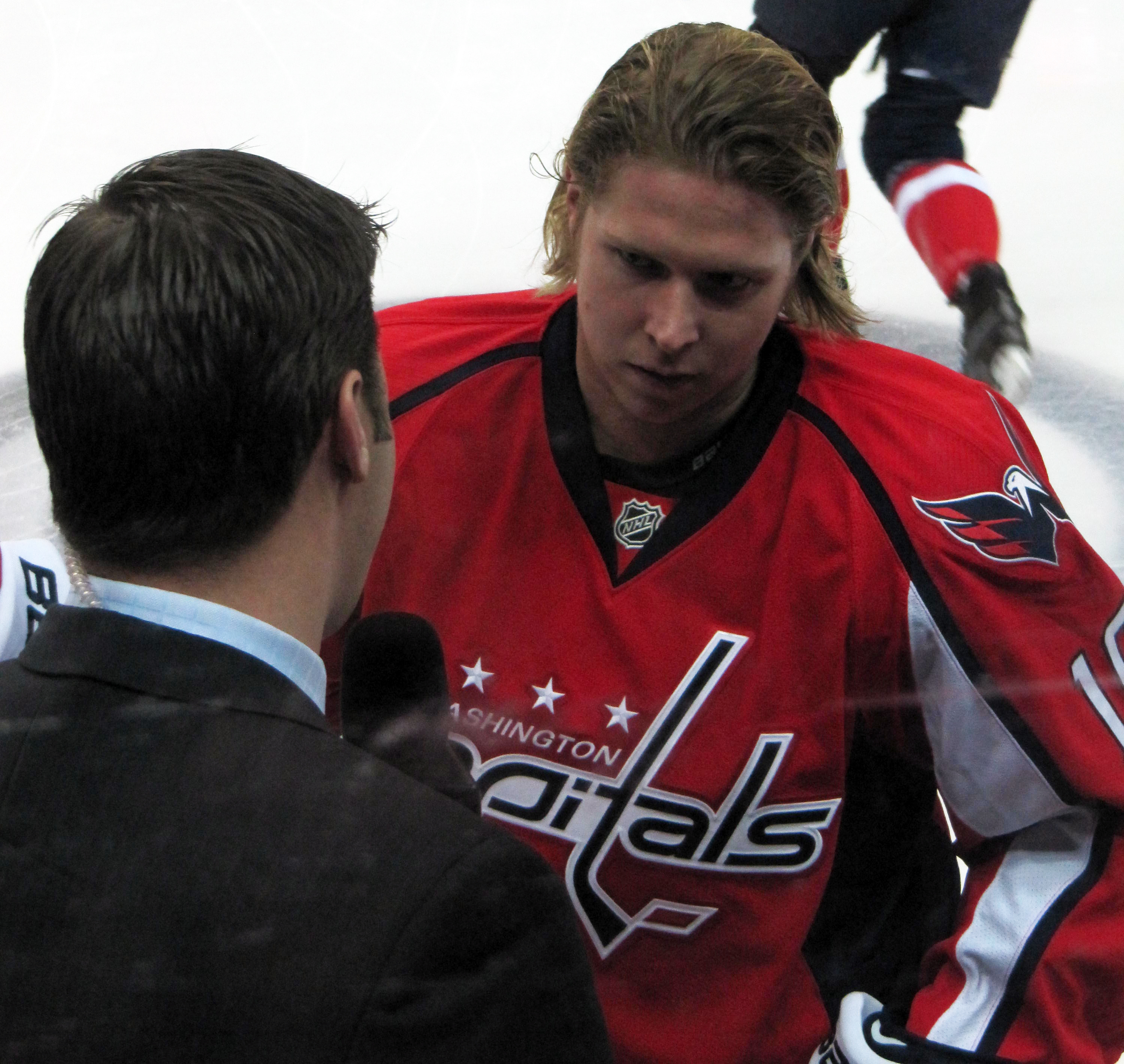 Caps/Habs (April 15, 2010) - 14